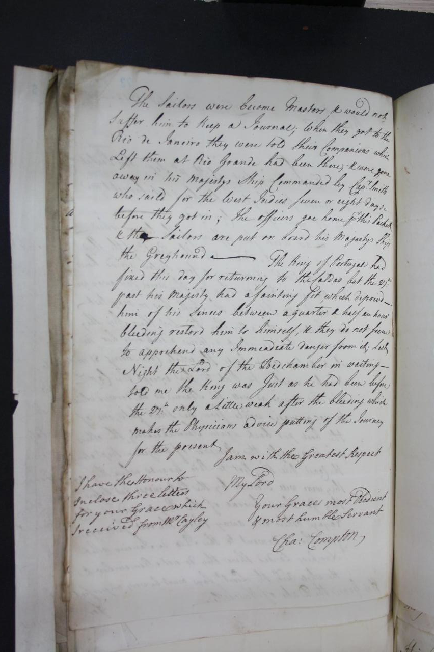 Letter from British Ambassador to Sec of State (Charles Crompton to Duke of Newcastle)